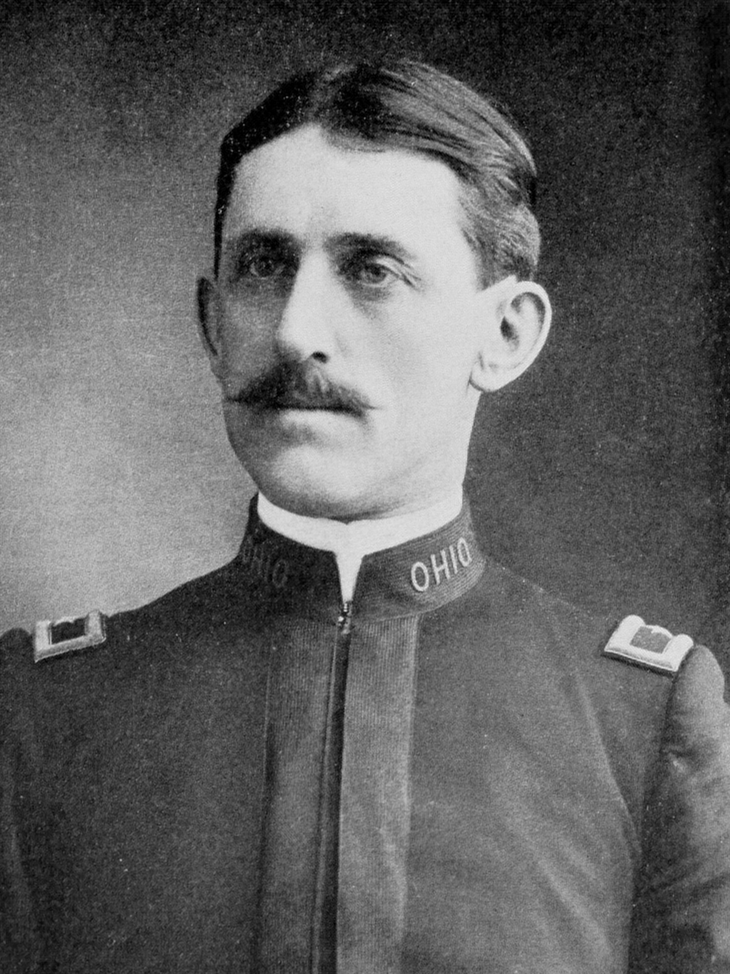 John C. Speaks as General of Ohio National Guard in about 1903.